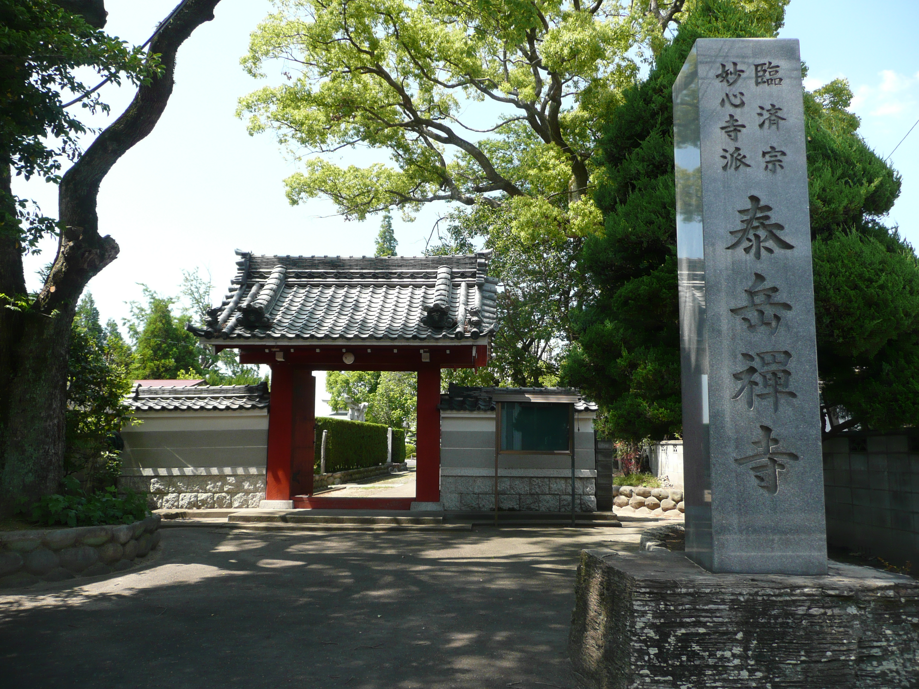 泰岳寺の山門。元々は名古屋城三の丸清水口の赤門であった。